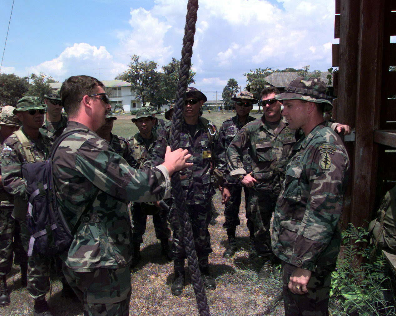 U.S. Army Staff Sgt. Sean Suttles (left), and Sgt. 1st Class Keith Looker (right), brief U.S. and Royal Thai Special Forces personnel on safety procedures prior to fast-rope training on May 17, 1998, during Exercise Cobra Gold '98. Cobra Gold '98 is the latest in a continuing series of U.S.-Thai military exercises designed to ensure regional peace and strengthen the ability of the Royal Thai Armed Forces to defend Thailand. The training includes joint combined air, land and sea operations. Cobra Gold is the largest strategic mobility exercise involving the U.S. Pacific Command forces this year. Suttles and Looker are deployed for the exercise from Bravo Company, 3rd Battalion, 1st Special Forces Group (Airborne), Fort Lewis, Wash.